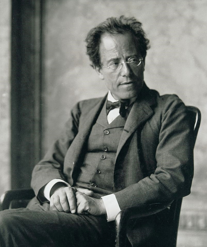 Photograph of Gustav Mahler in the Foyer of the Hofoper, Vienna; this work was published on plate 12 of Richard Specht's Gustav Mahler (1913), Berlin and Leipzig: Schuster and Loeffler. This is a studio portrait and the photographer has set up lighting and pose; hence, it is a lichtbildwerk, photographic work (of art), subject to 70 years pma copyright protection per Austrian law.